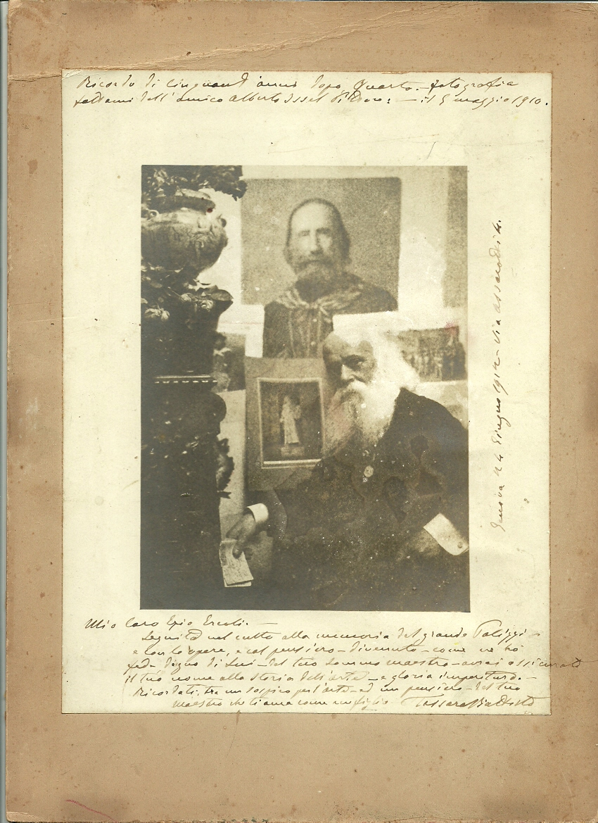 Private photo donated from Giovanni Battista Tassata to the painter Ezio Ercoli